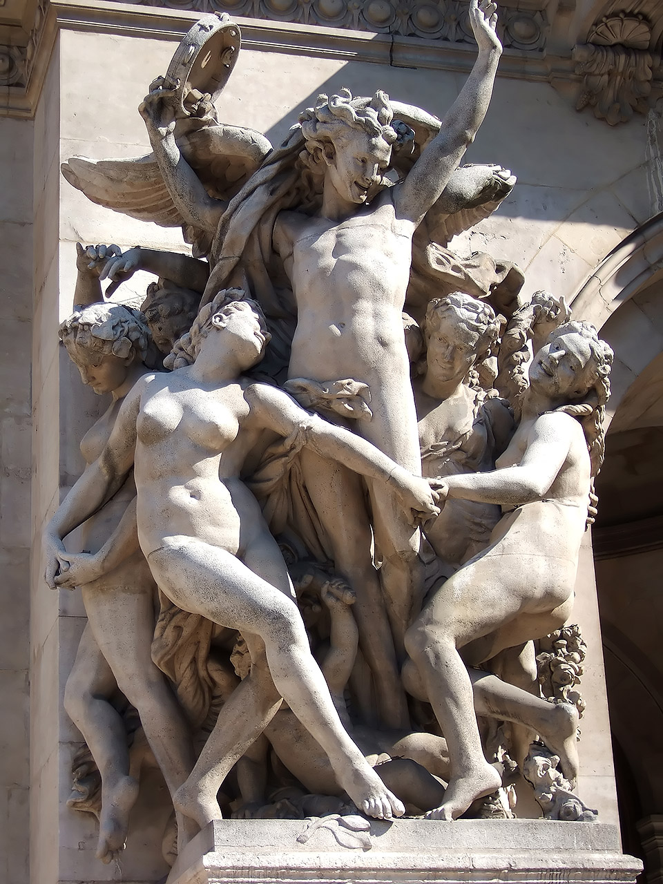 Jean-Baptiste Carpeaux's "La Danse" at the Palais Garnier. Fuji F11 Camera at ISO 100.